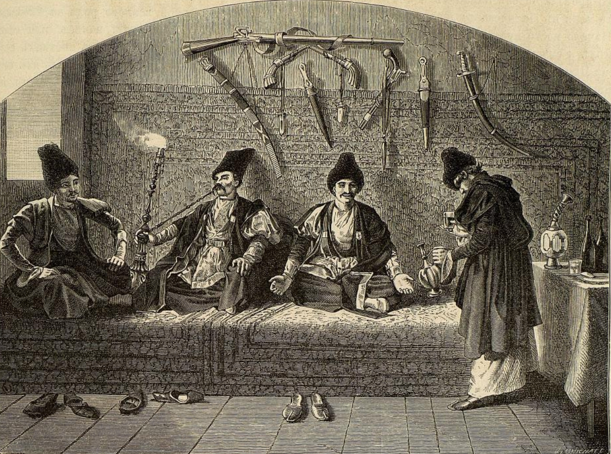 Azerbaijani cafe in Shusha